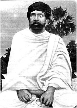 Image of Kangal Harinath